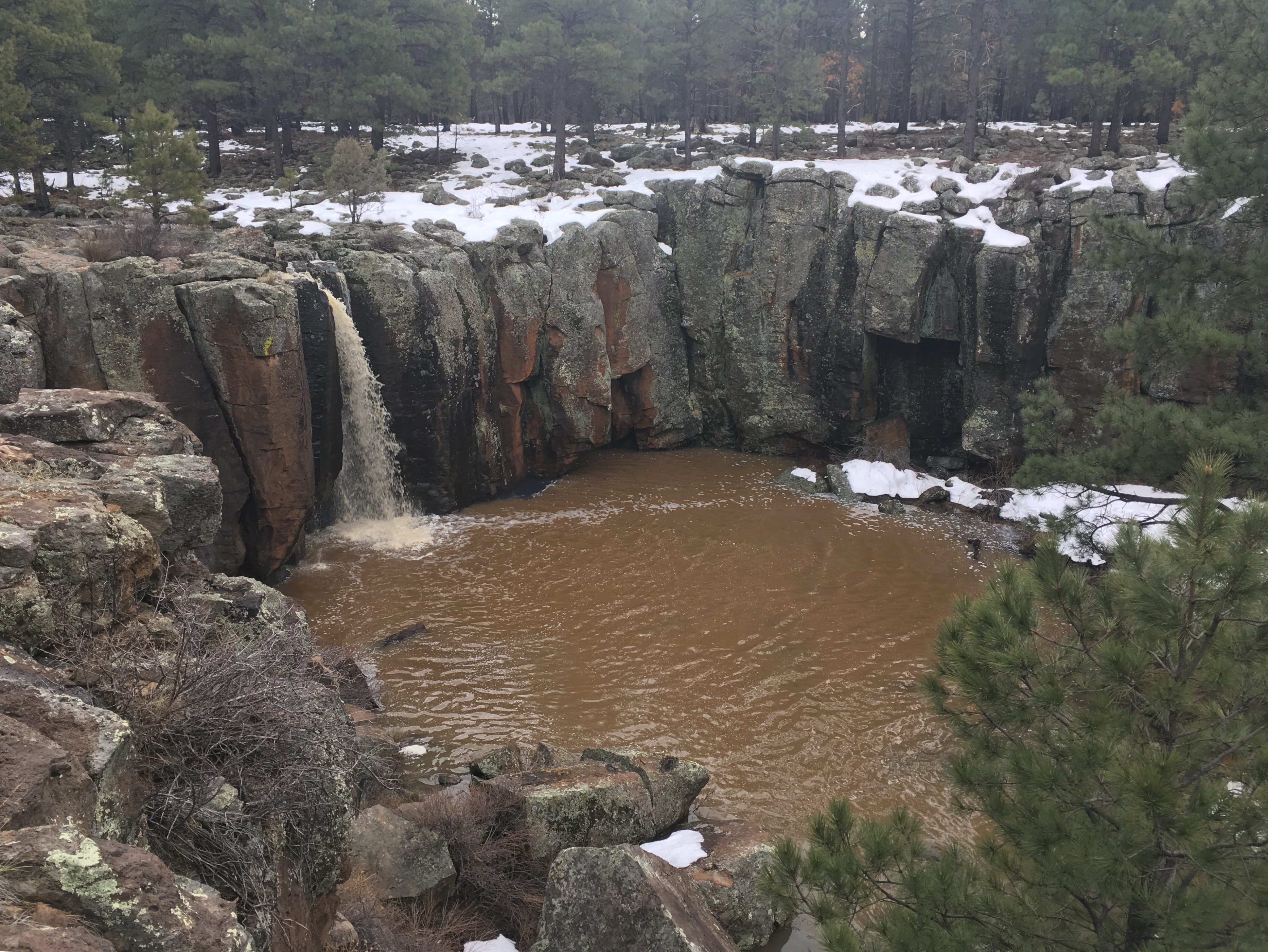 Water flowing in Keyhole Sink, February 2017. Landscape above the canyon walls is also visible, showing the abrupt nature of the geologic sink.